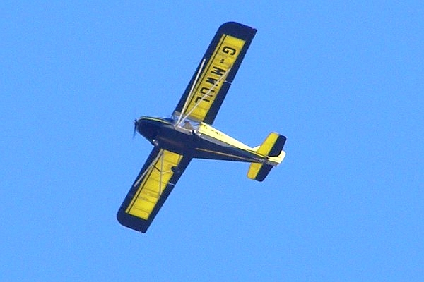 G-MWUL a Rans S6-ESD homebuilt in 1992 overhead Cuckmere Haven, Sussex, England